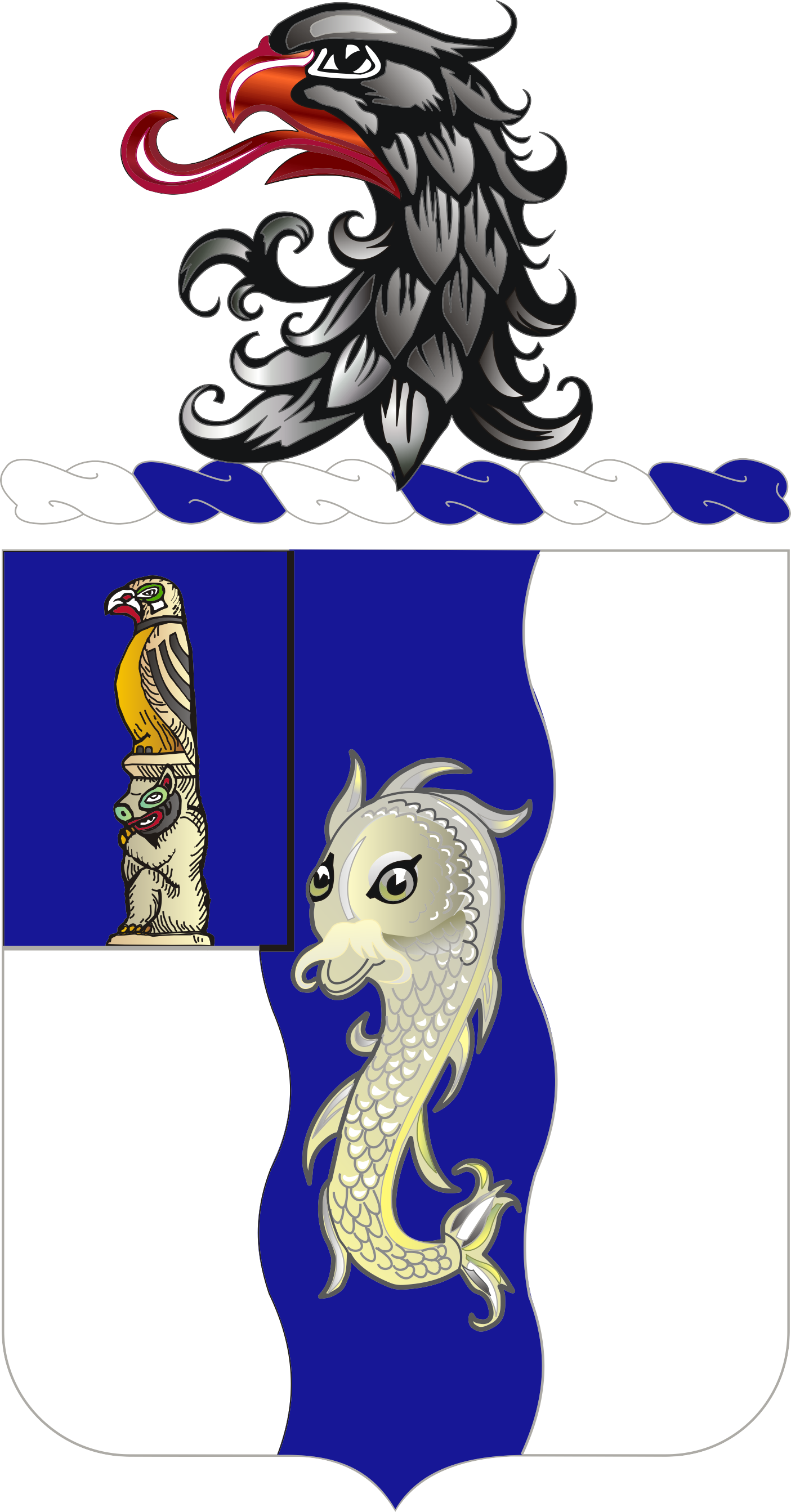 Description/Blazon Shield Argent, on a pale wavy Azure a dolphin hauriant embowed of the field, on a canton of the second the totem pole of the 23d Infantry Proper. Crest On a wreath of the colors an eagle's head erased Sable, beaked and langued Gules (of the Rhine Province). Motto PLAY THE GAME. Symbolism Shield The Regiment was organized in 1917 at Syracuse, New York, by drafts of personnel from the 23d Infantry. The shield is white and blue for Infantry. The device of Syracuse is a dolphin. The parentage of the Regiment is indicated in the canton. The 23d took over Alaska in 1867 and this is commemorated by the crest of that Regiment which is an eagle, the new owner America, upon a plate which is upon the head of a bear, the old owner Russia, the story being that the old owner gave a feast to the new owner when the country changed hands. The 50th's overseas service in World War I was in the Army of Occupation in the Rhine country indicated by the pale with wavy edges. It had been under orders for Silesia at the time of the Armistice. Crest The crest is the eagle's head of the two provinces of Rhine and Silesia. Background The coat of arms was originally approved for the 50th Infantry Regiment on 11 April 1922. It was redesignated for the 50th Armored Infantry Regiment on 7 August 1942. It was redesignated for the 50th Armored Infantry Battalion on 10 November 1943. The insignia was redesignated for the 50th Infantry Regiment on 25 November 1958.